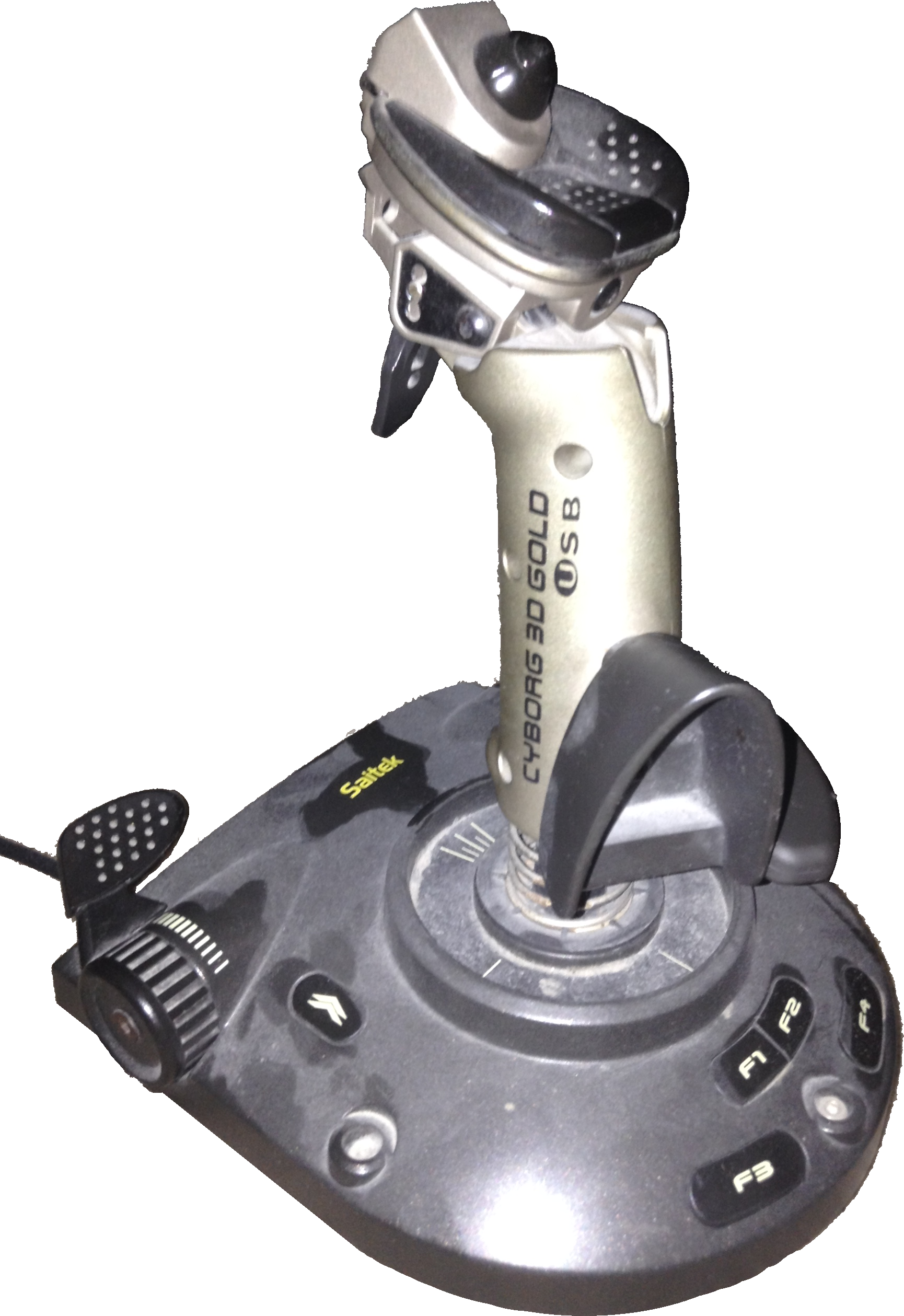 A later, more modern joystick called "Cyborg 3D Gold".